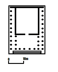 Temple of Claudius plan at Colchester